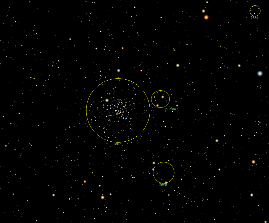 Halo of M67 (taken from Perseus)